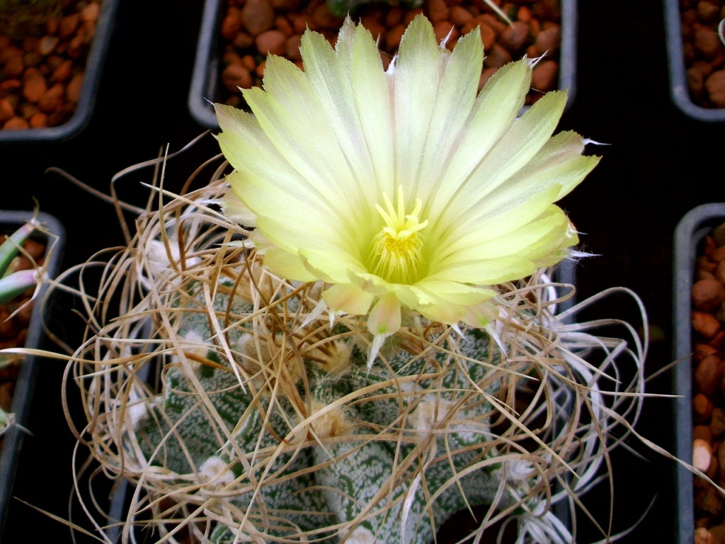 Astrophytum capricorne flower